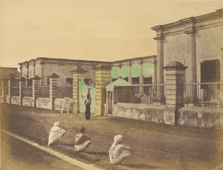 Government House, Chandernagore, French India. Hand-coloured salt print. Photographer: Frederick Fiebig, 1851.